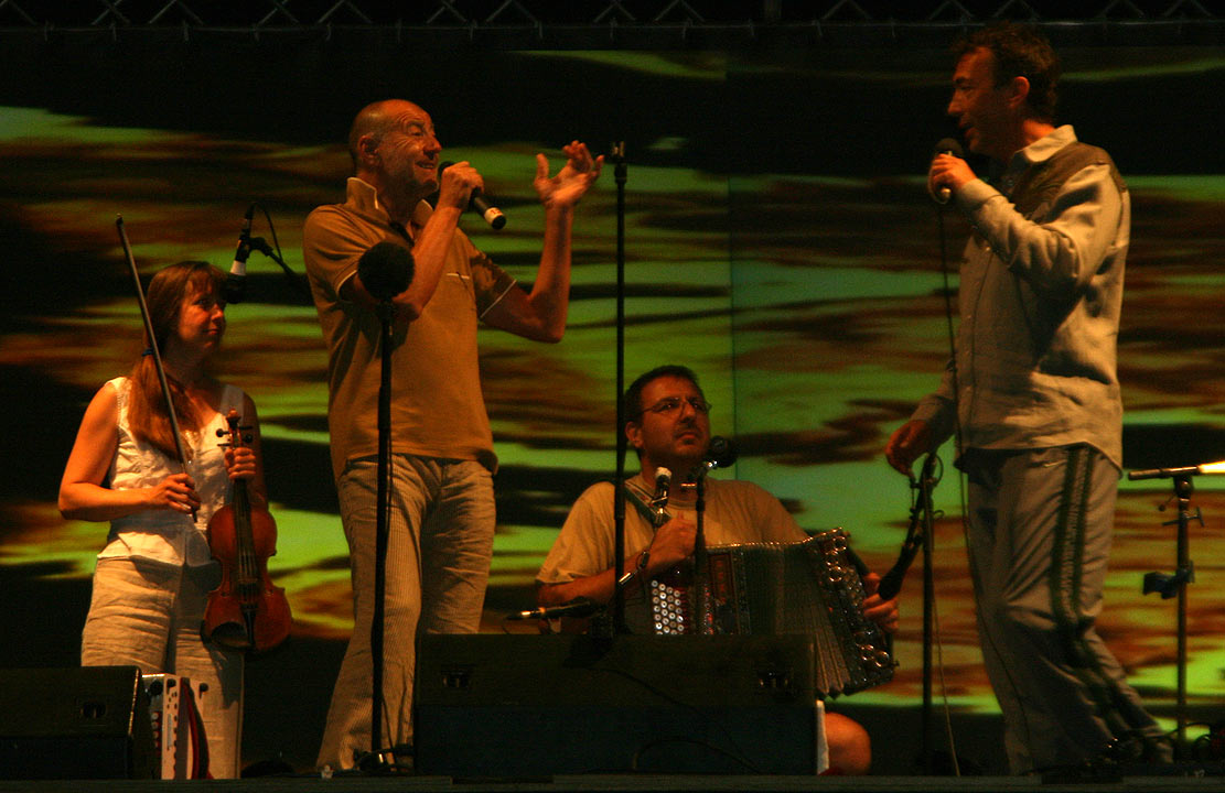 Austrian musicians Willi Resetarits (left), Hubert von Goisern (right) and members of the Hohtraxlecker Sprungschanzenmusi at the Donauinselfest 2007